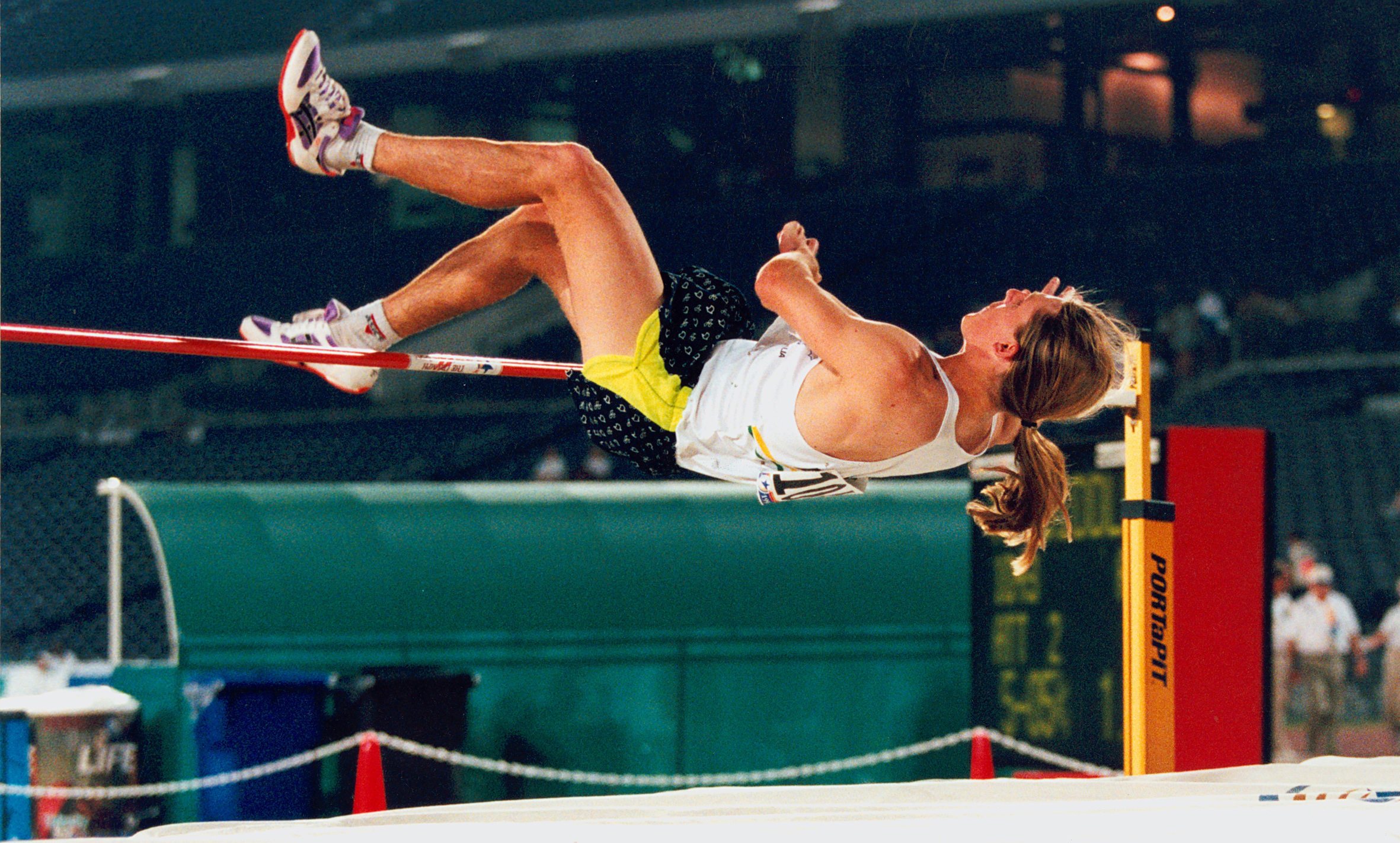 Vision impaired Australian athlete Anthony Biddle competes in the F11 high jump at the 1996 Atlanta Paralympic Games, finishing fourth